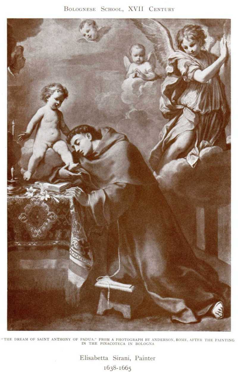 1905 print after page of Women painters of the world, from the time of Caterina Vigri, 1413-1463, to Rosa Bonheur and the present day, by Walter Shaw Sparrow, The Art and Life Library, Hodder & Stoughton, 27 Paternoster Row, London